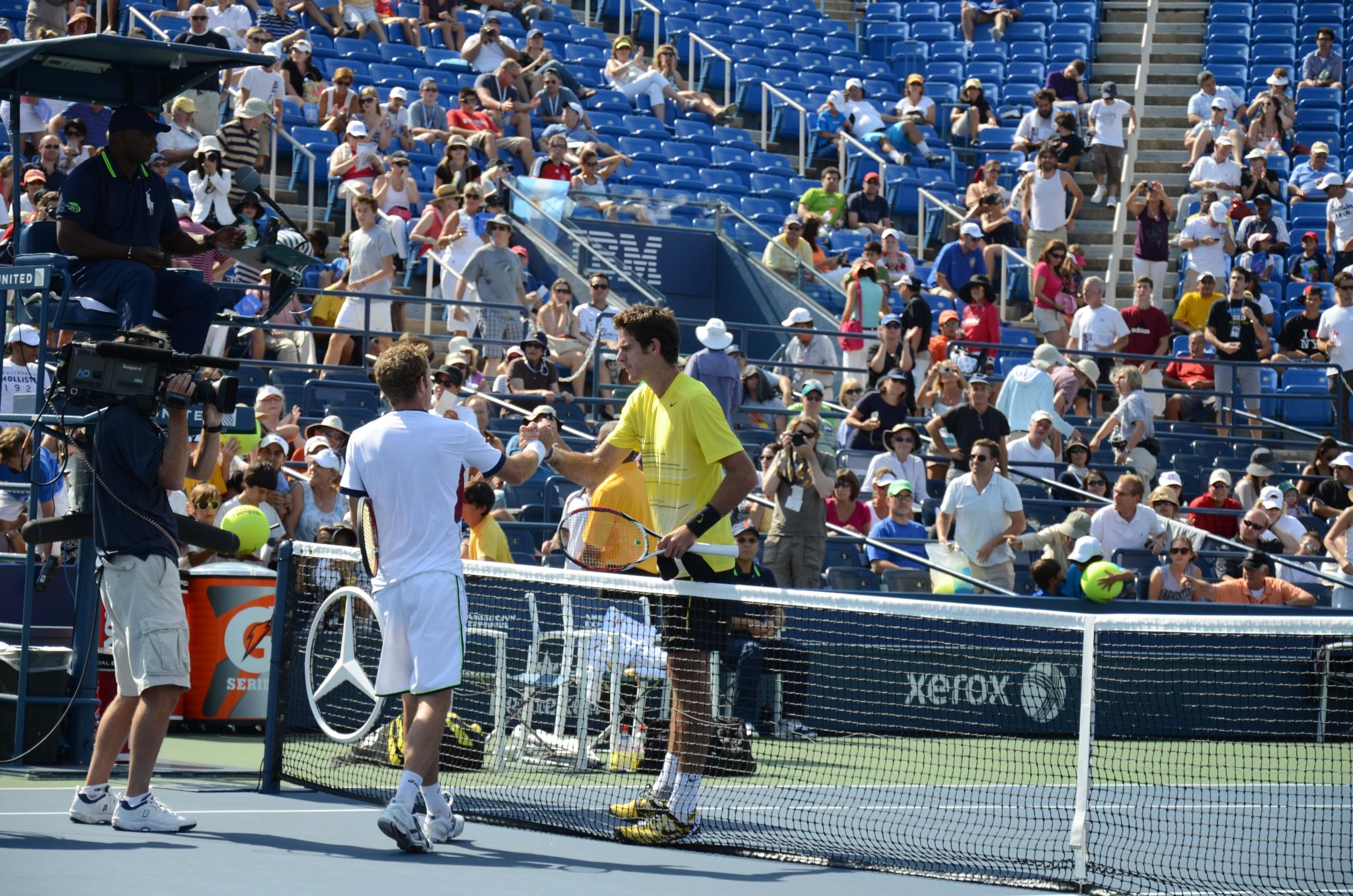 Volandri and del Potro shake hands at the end of their first round match at the 2011 US Open